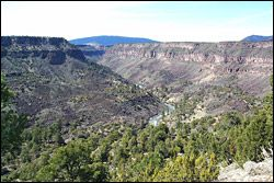 Wild Rivers Recreation Area